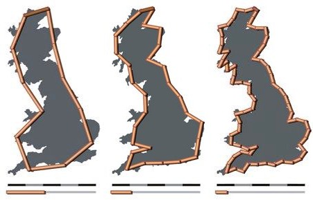 The coastline of the United Kingdom as measured with measuring rods of 200 km, 100 km and 50 km in length. The resulting coastline is about 2350 km, 2775 km and 3425 km; the shorter the scale, the longer the measured length of the coast.